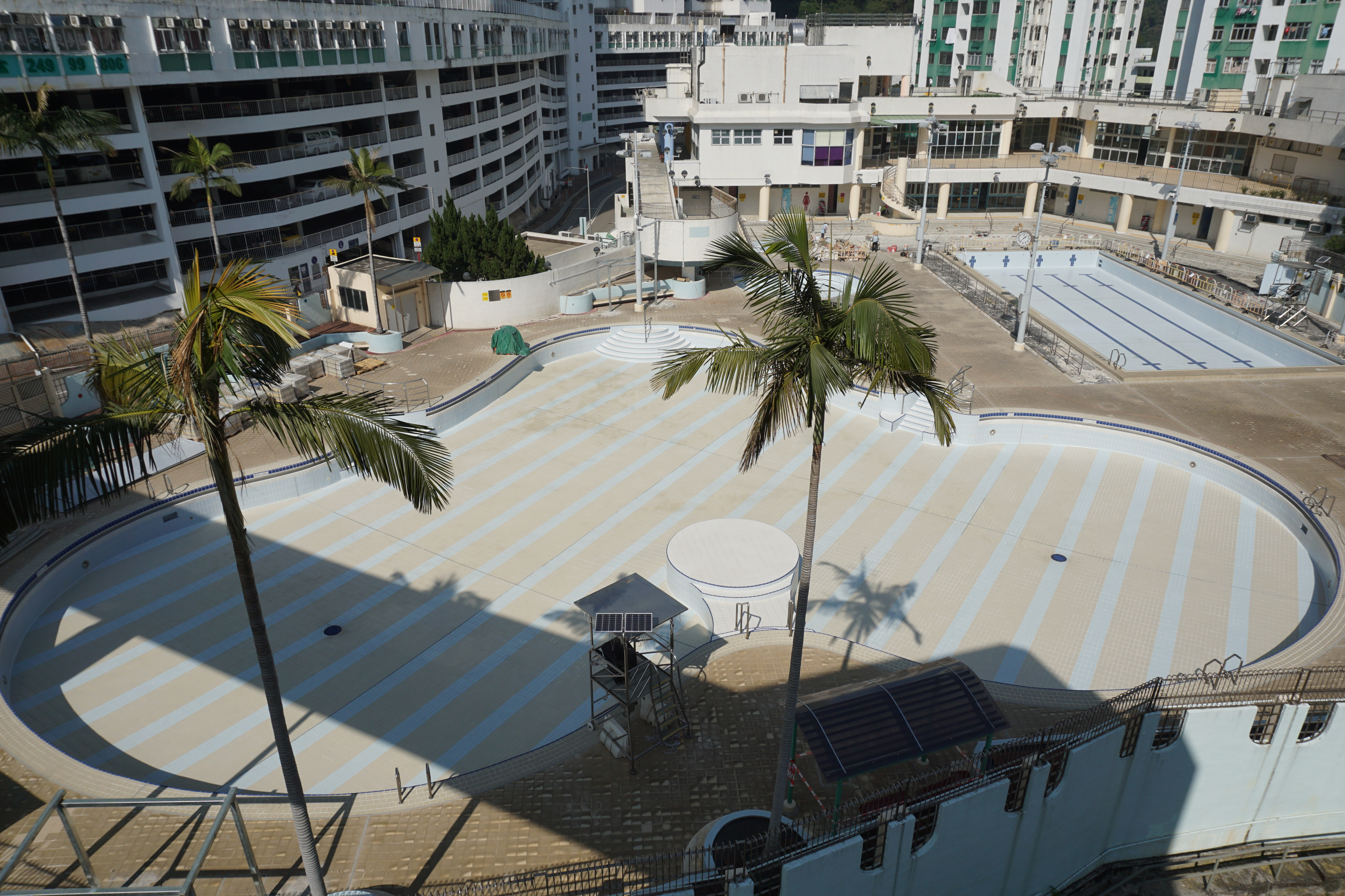 Tsuen King Circuit Wu Chung Swimming Pool in Tsuen Wan, Hong Kong.